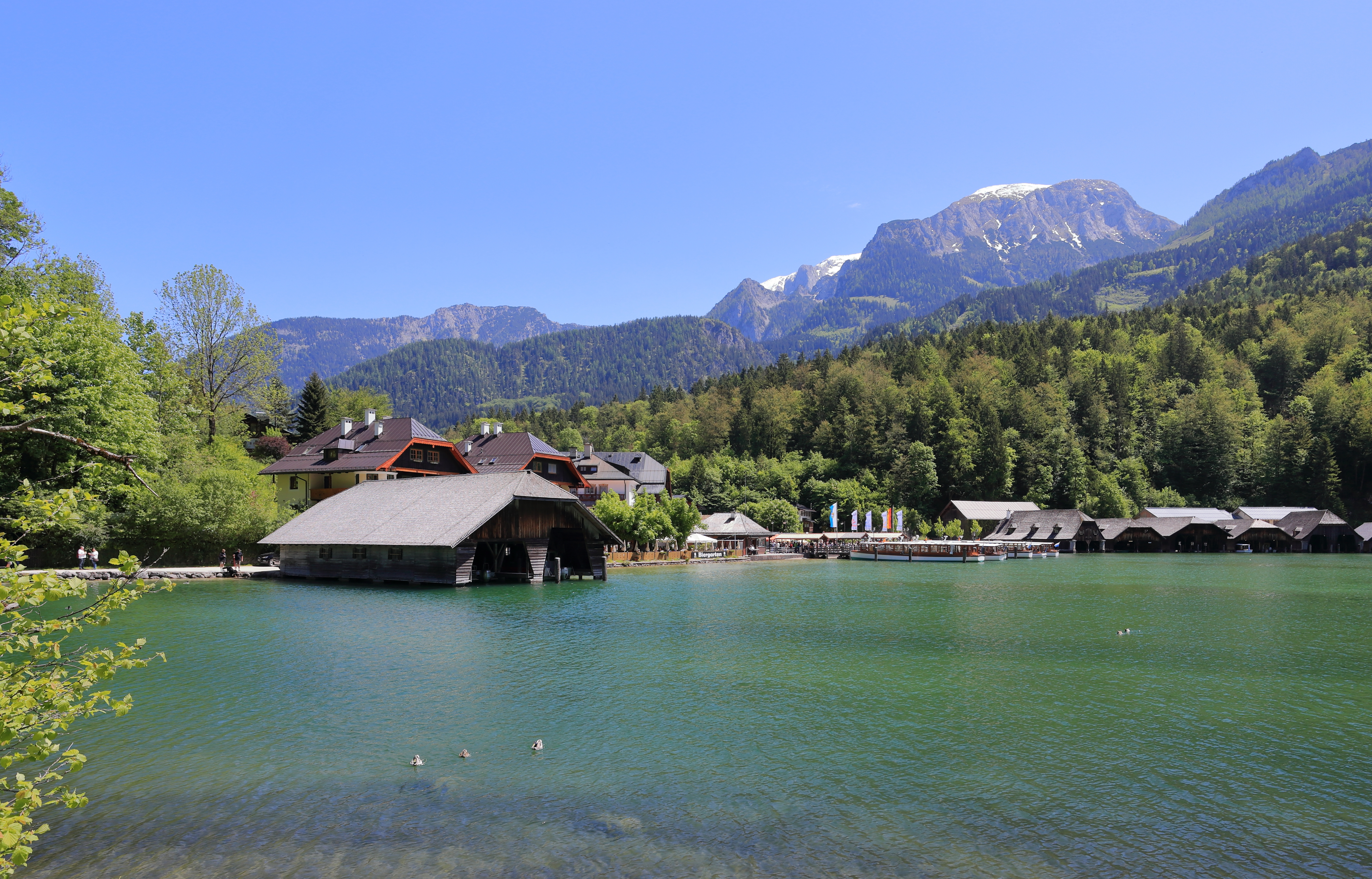 The municipality of Schönau am Königssee, Bavaria